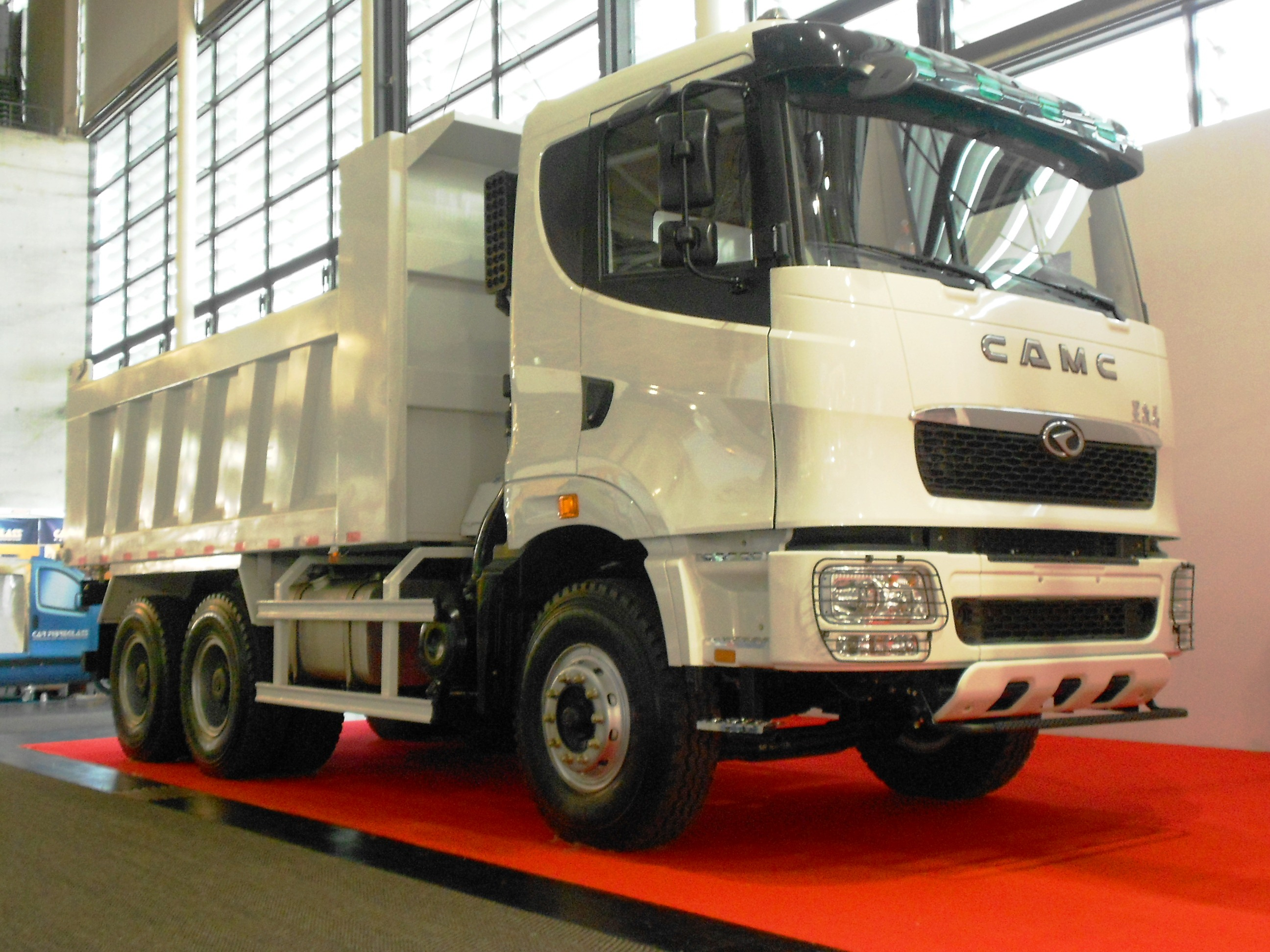 CAMC dump truck, photo taken at exhibition IAA 2012 in Hanover, Germany